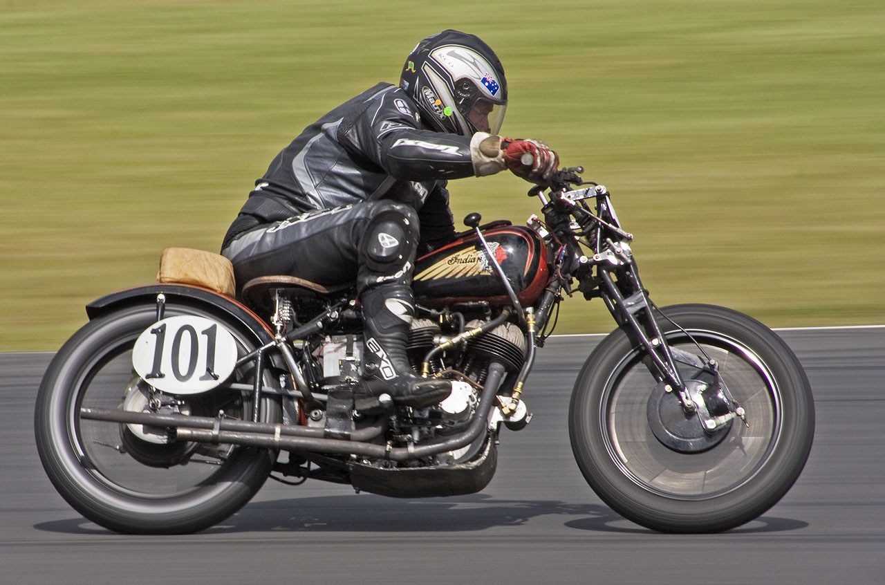 The Barry Sheen Memorial Race Meeting - 23 March 2008, Eastern Creek (NSW, Australia)Warrick Ellis: 1941 750cc Indian